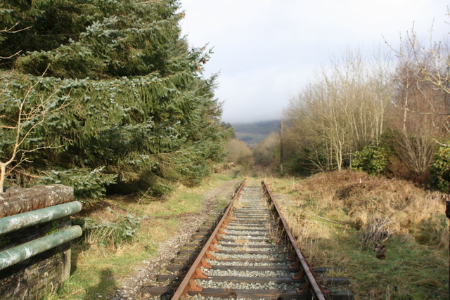 Overgrown trackbed through old Llan Ffestiniog Station Taken on Xmas day about 1pm. This is the disused section of the Bala and Festiniog Railway between Blaenau Ffestiniog and Trawsfynydd Nuclear Power Station. This section closed in 1998, after the closure of the power station, although the track is protected and has remained in situ since.